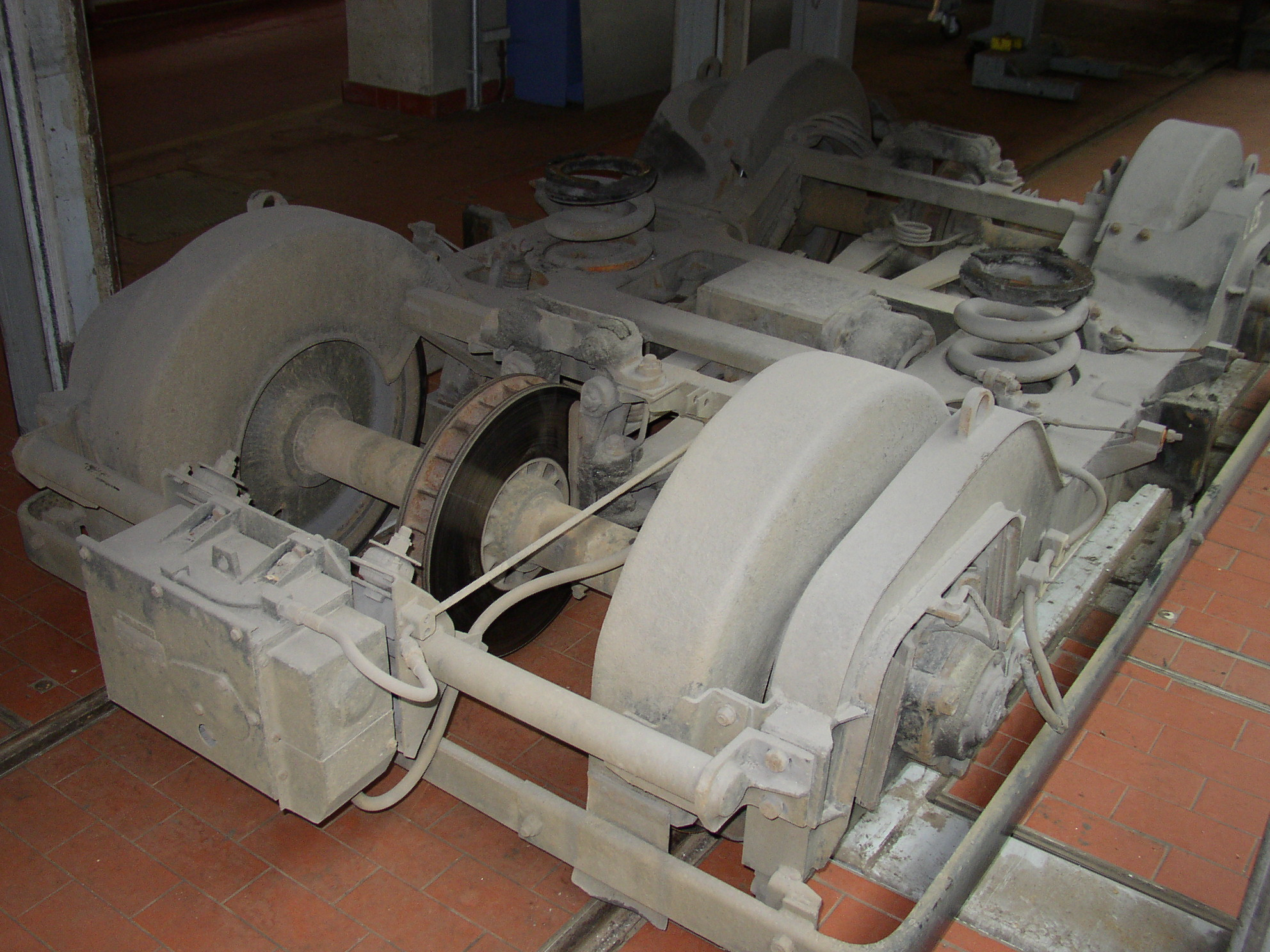 Tram chassis of a GT8 (year of manufacture: 1976)